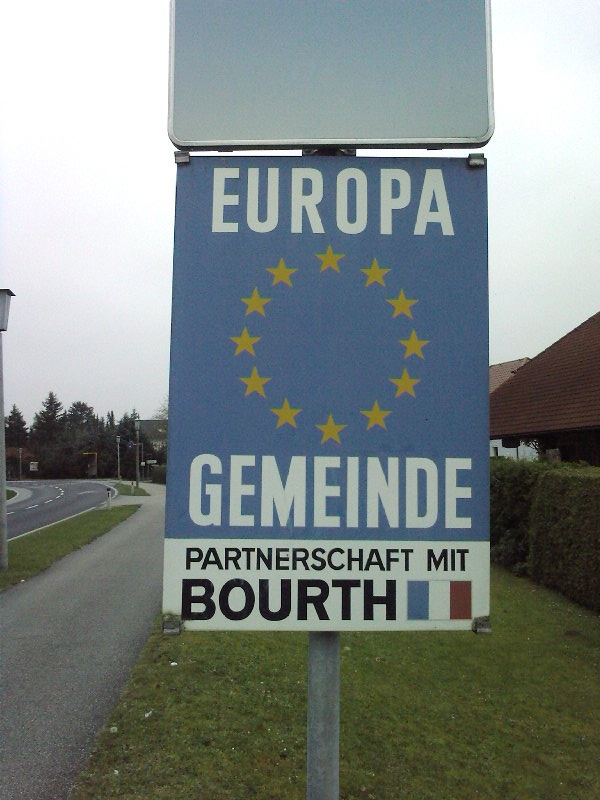 "Europa" (twin cities) panel of Bourth (France) in Kronstorf (Austria).